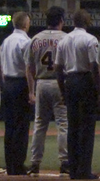 The Tampa Bay Devil Rays Major League Baseball club, right, and the Detroit Tigers salute the military as part of their Opening Day celebration on April 2, 2002.